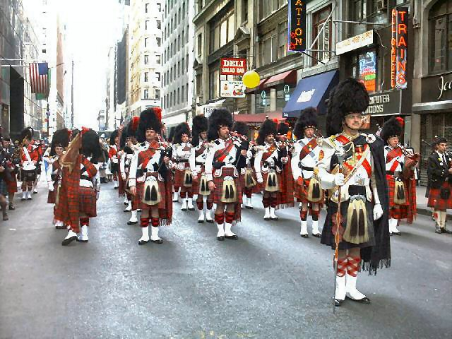 Mystic Highland Pipe Band at Tartan Day Parade, West 45th Street, New York City